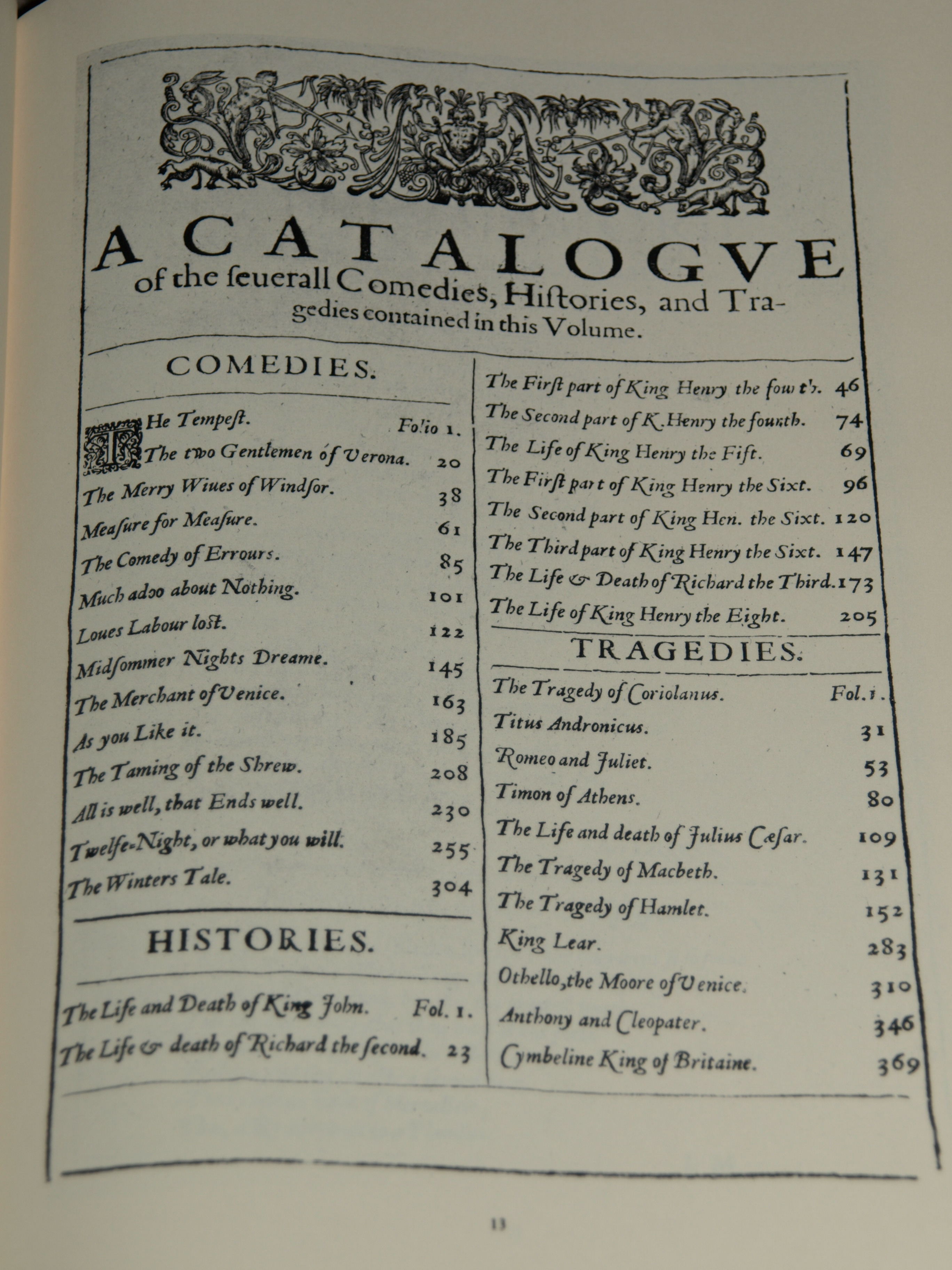 Photo of a page from a facsimile edition of the "First Folio" of Shakespeare's plays, published in 1623